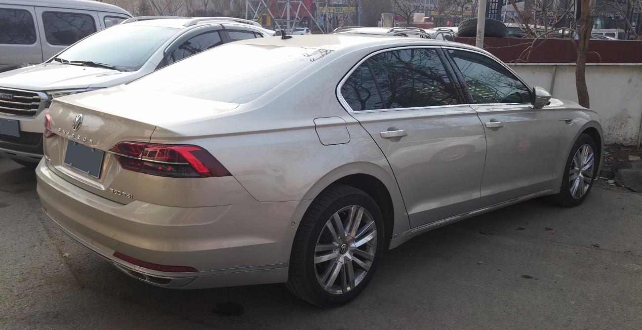 Volkswagen Phideon photographed in Shenyang, Liaoning province, China.